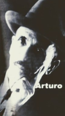 Arturo Ambrogí